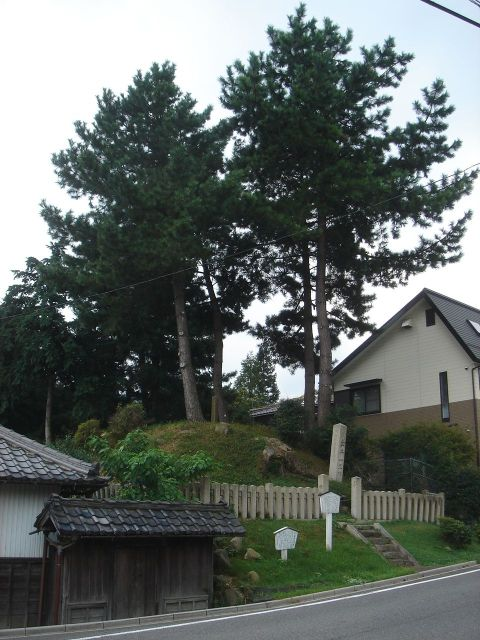 Tarui Ichirizuka on the Nakasendō in Tarui, Gifu, Japan.